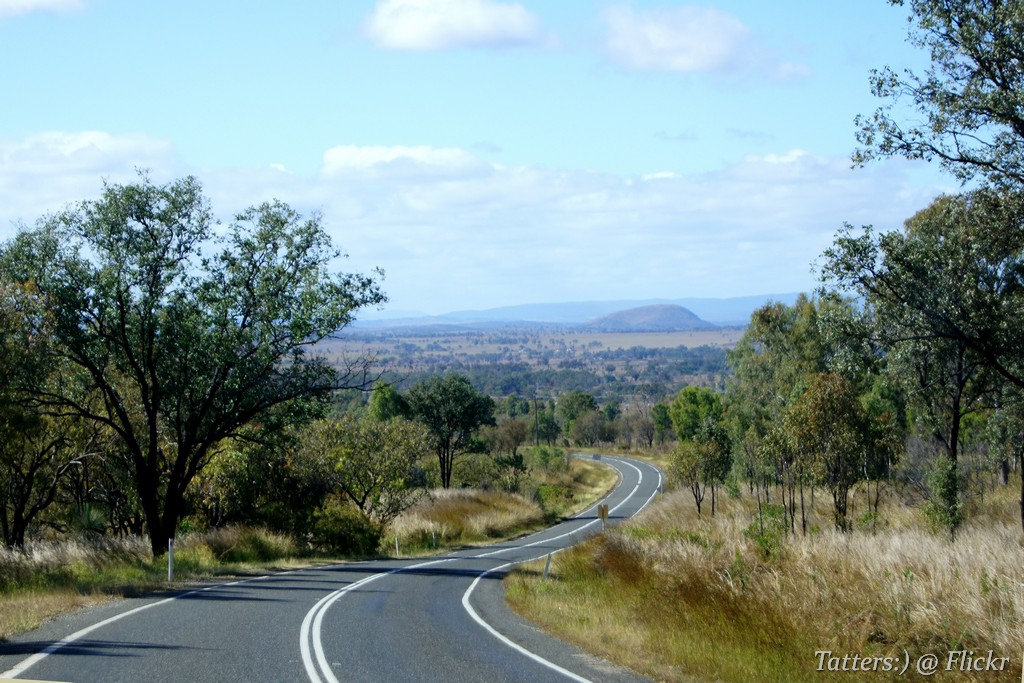 Queensland trip 2011